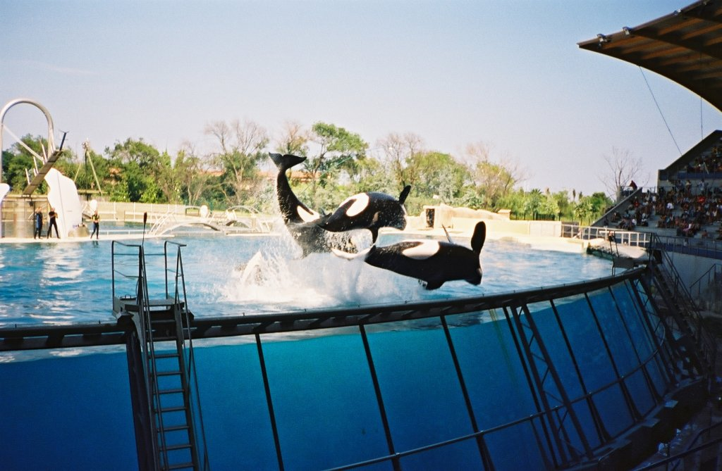 Orcas in Marineland d'Antibes in France.